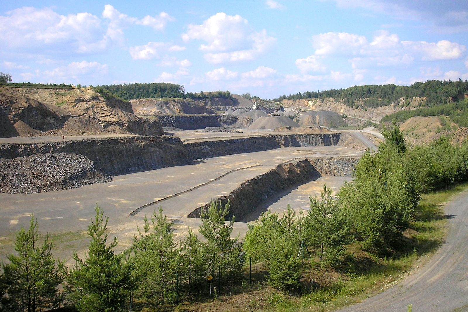 Basalt quarry on the Zeilberg near Maroldsweisach (Landkreis Haßberge, Lower Franconia, Germany).